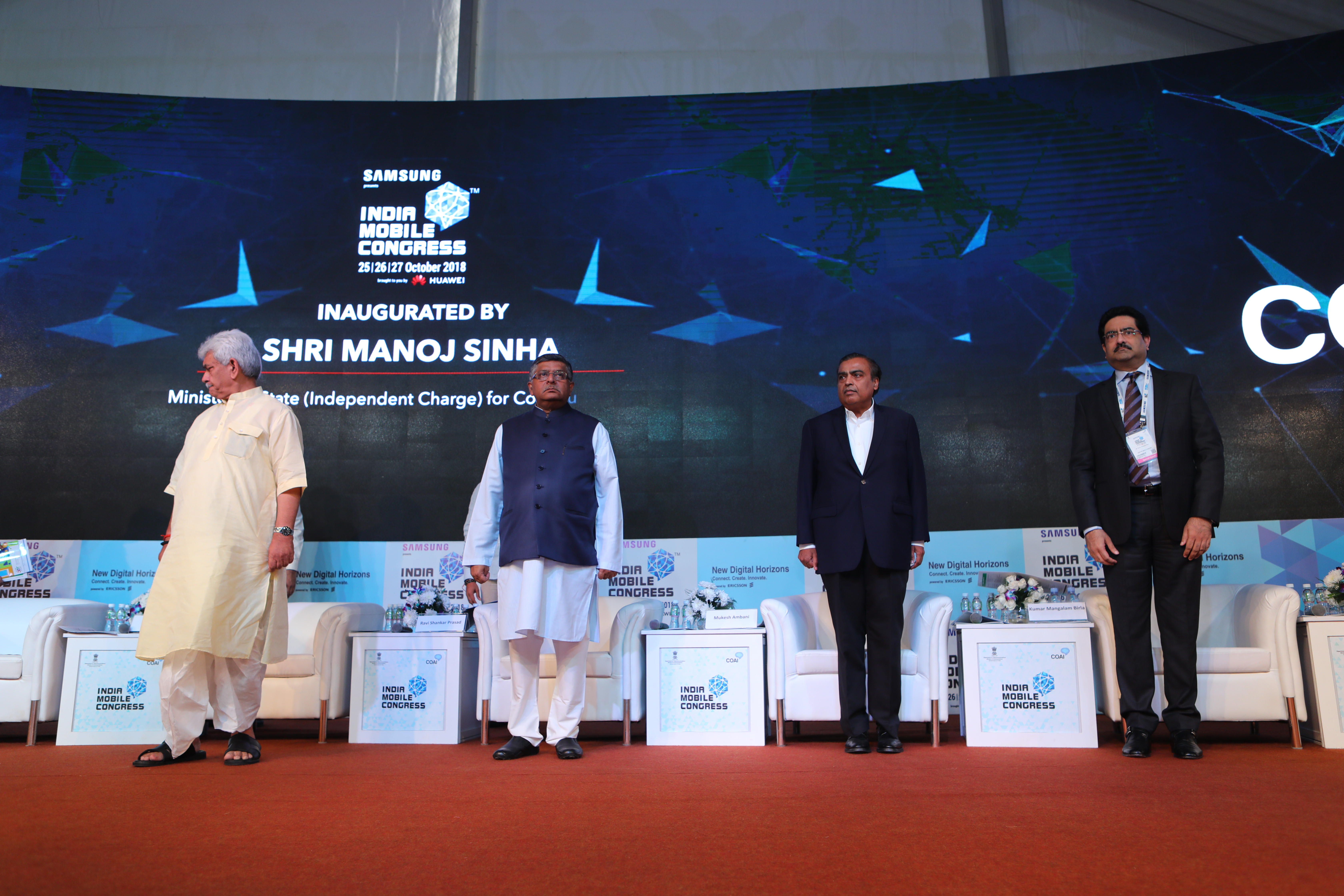 L-R Manoj Sinha, Minister of State (Independent Charge) for Communications and Minister of State for Railways, accompanied by Ravi Shankar Prasad, Minister of Electronics and Information Technology and Law & Justice, Mukesh Ambani, Chairman, Reliance Industries Limited, and Kumar Mangalam Birla, Chairman, Aditya Birla Group.